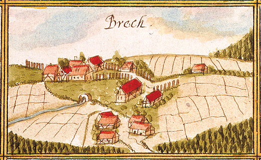 View of Brech, Pfahlbronn, Alfdorf, from the forest register books created by Andreas Kieser